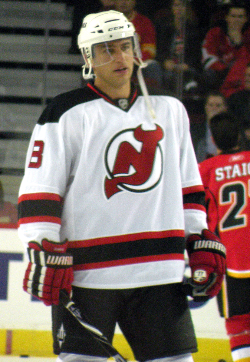 New Jersey Devils forward Dainius Zubrus prior to a National Hockey League game against the Calgary Flames